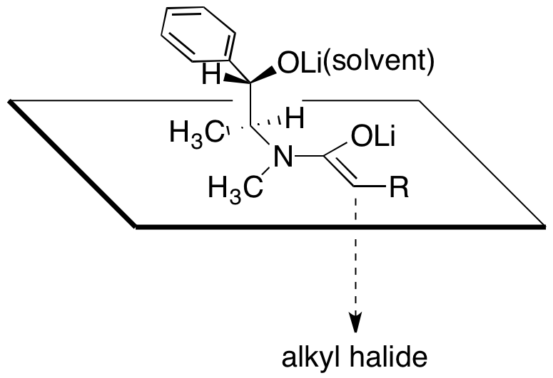 chemistry